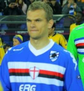 Vladimir Koman